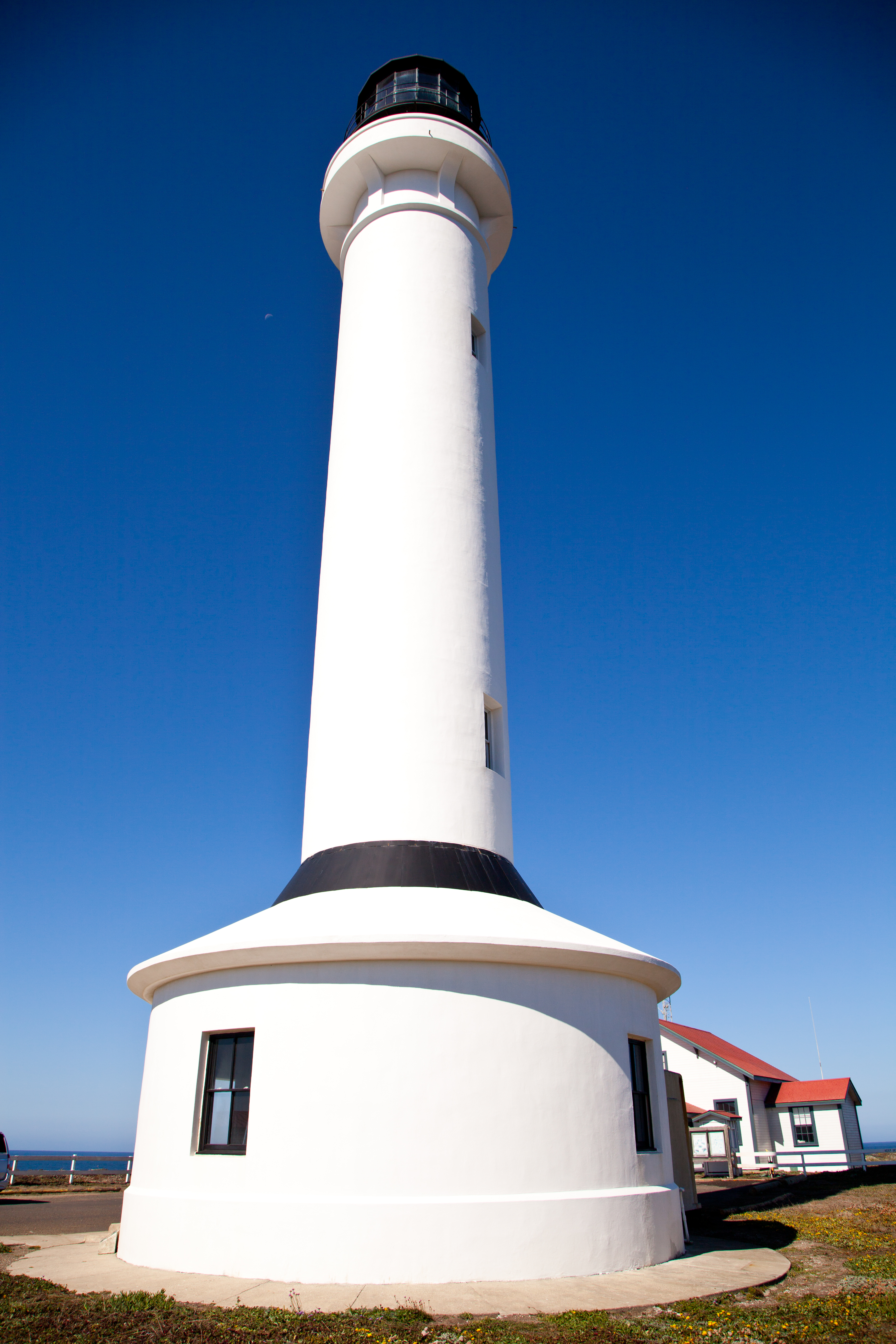 Point Arena Light Station